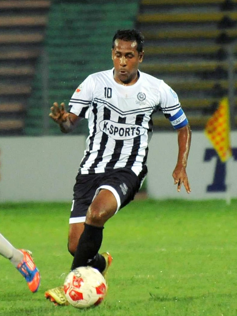 Zahid Hasan Ameli playing for Dhaka Mohammedan SC in 2019-20 Bangladesh Premier League.